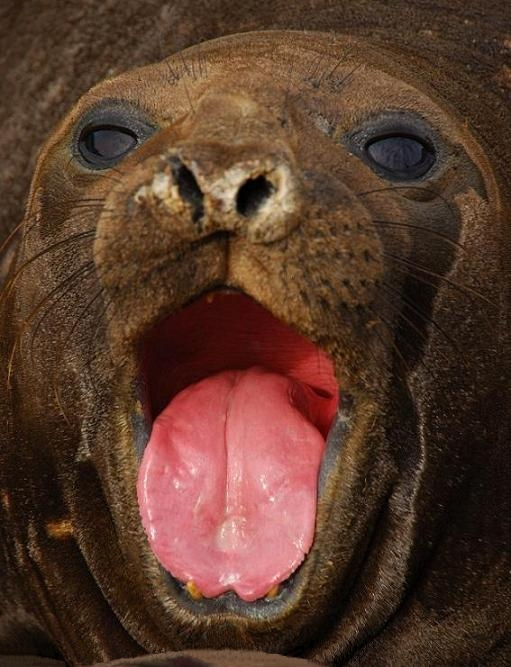 South Georgia Elephant Seal